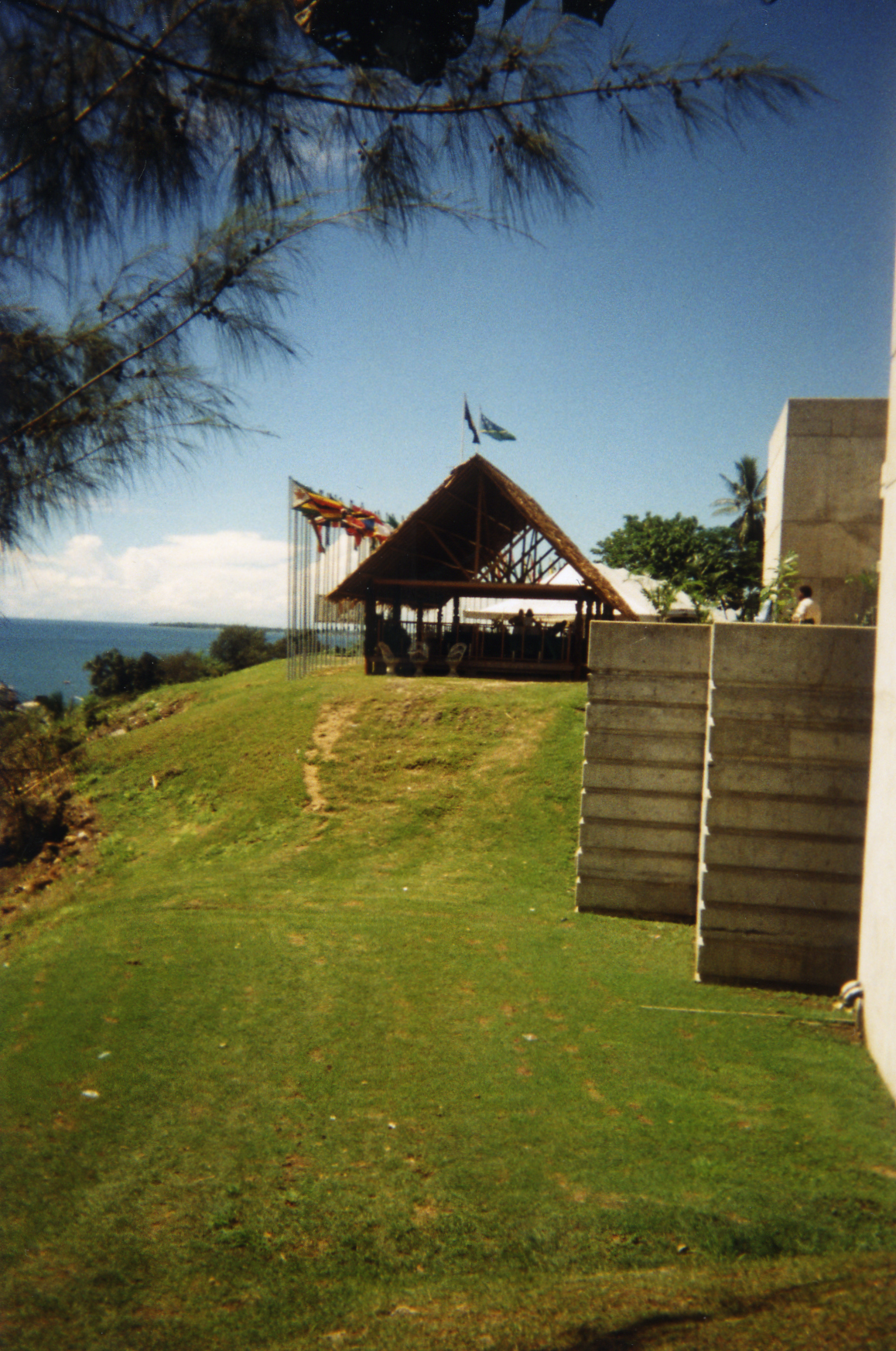 The Solomon Islands gave up their parliament building for a week so that the Commonwealth Youth Forum and Commonwealth Youth Ministers Meeting could use it for their meetings. That was a pretty big deal: anywhere else in the world such a meeting would end up in a hotel or conference centre. The parliament building was at the time the best building the Solomon Islands had to offer, and they are a very hospitable race. Note the row of flags in the distance: there was a flag for evey Commonwealth member. I managed to get the Union Flag the right way up!